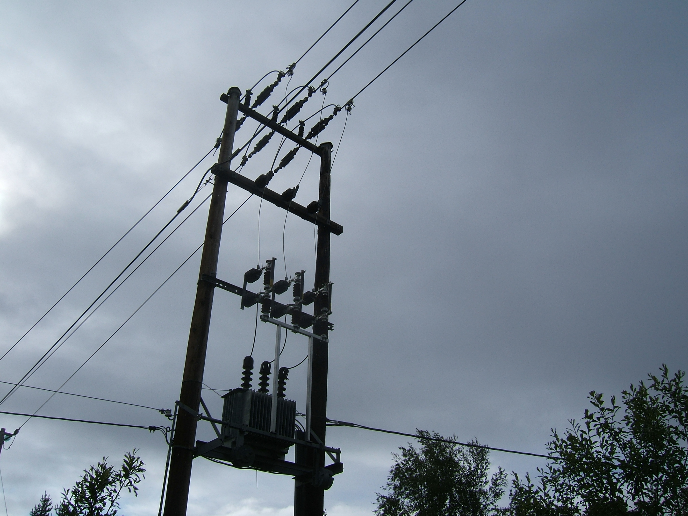 Transformer post, Norway